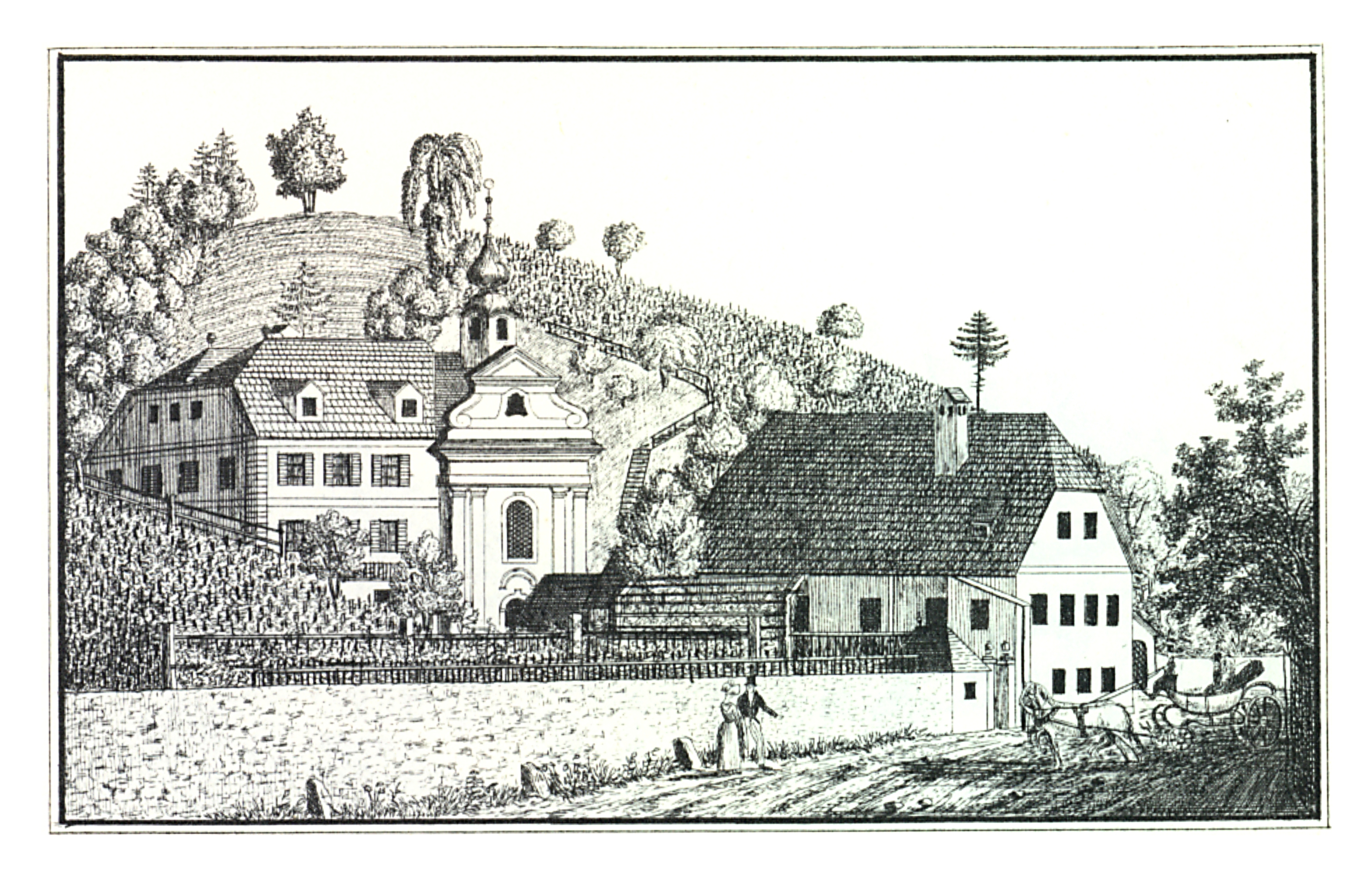 J. F. Kaiser - lithographirte Ansichten der Steyermärkischen Städte, Märkte und Schlösser, Graz 1824-1833 Joseph Franz Kaiser (1786–1859) Alternative names J. F. KaiserDescriptionAustrian printer and editorDate of birth/death 11 March 1786 19 September 1859Location of birth/death Graz (Styria) GrazAuthority control : Q1499963 VIAF: 30629353 ISNI: 0000 0000 3083 0153 LCCN: n87141671 GND: 129880159 NLP: A24960305 WorldCat creator QS:P170,Q1499963 . Scanprojekt Community Projektbudget 2012 This scan or this PDF-file was created within the GLAM-project Bookscanning, supported by Wikimedia Germany and Wikimedia Austria as a part of the community-project to capture books, documents and pictures which are not eligible to copyright or for which the copyright has expired. This document describes or depicts an object which is located in Austria today. Send requests for uncompressed scans to Hubertl. This work is in the public domain in its country of origin and other countries and areas where the copyright term is the author's life plus 100 years or less. You must also include a United States public domain tag to indicate why this work is in the public domain in the United States. This file has been identified as being free of known restrictions under copyright law, including all related and neighboring rights.